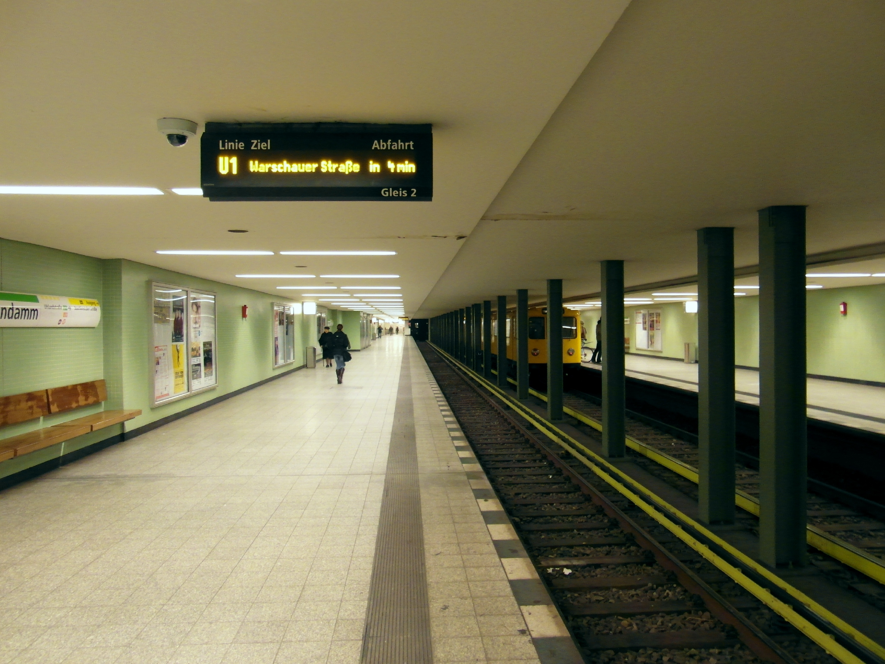 Kurfürstendamm underground station (line U1), platform in direction Warschauer Straße; Berlin, Germany